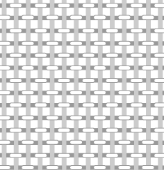 Detail of a diagram of the structure of a balanced plain weave textile.